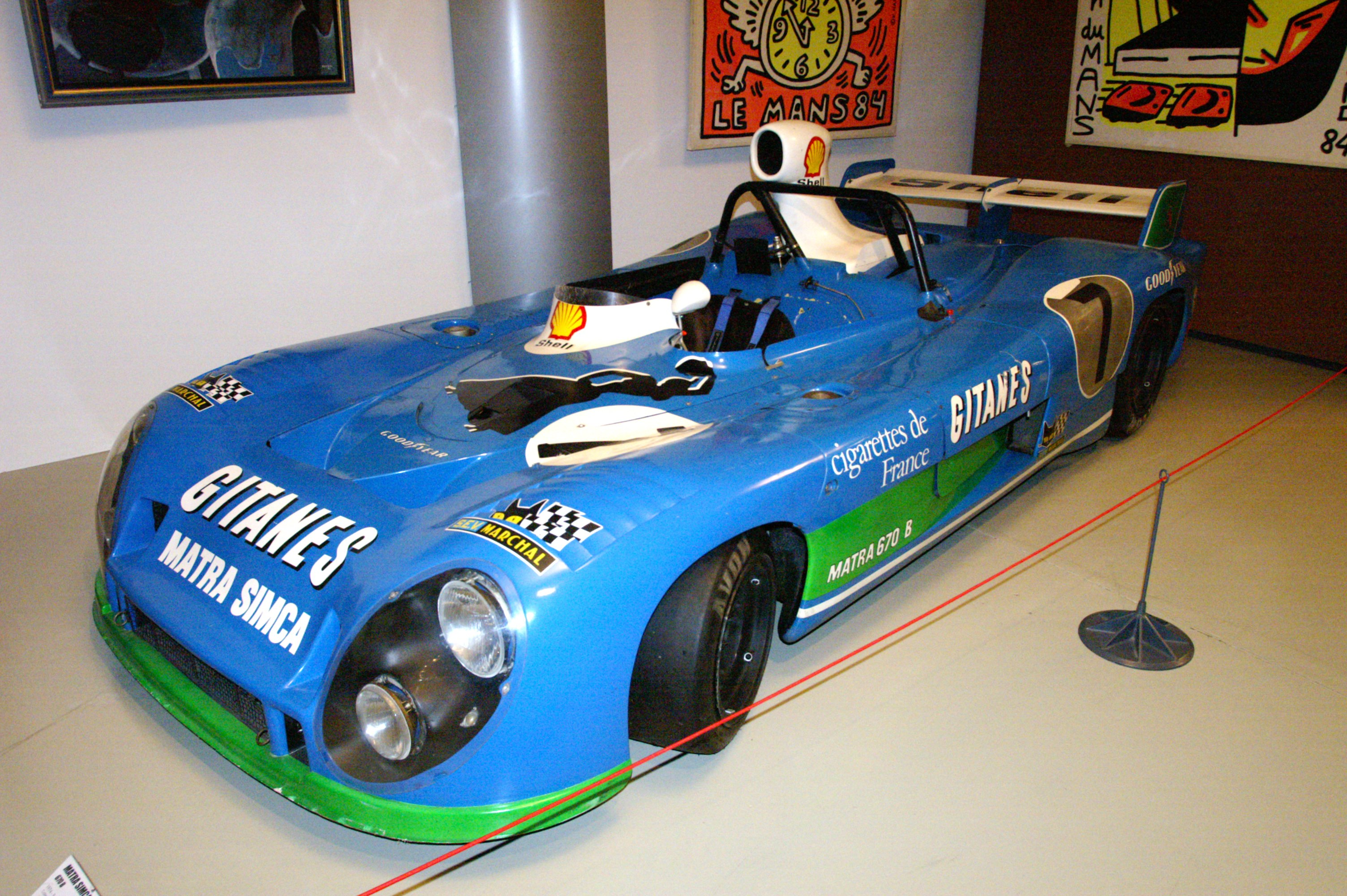 Matra Simca MS670C, Musée des 24 Heures